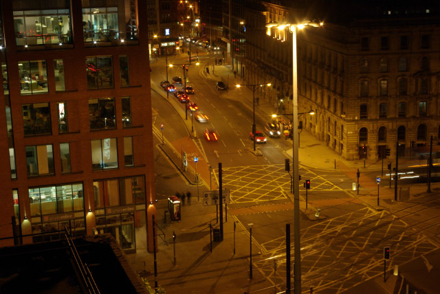 Portland Street, Manchester Looking along Portland Street towards its junction with Piccadilly, at about 1am on a Sunday morning. The Manchester Metrolink tram lines can be seen in the foreground crossing from Piccadilly Gardens station (to the left) into Aytoun Street. Further on a taxi is picking up a crowd of late night revellers.